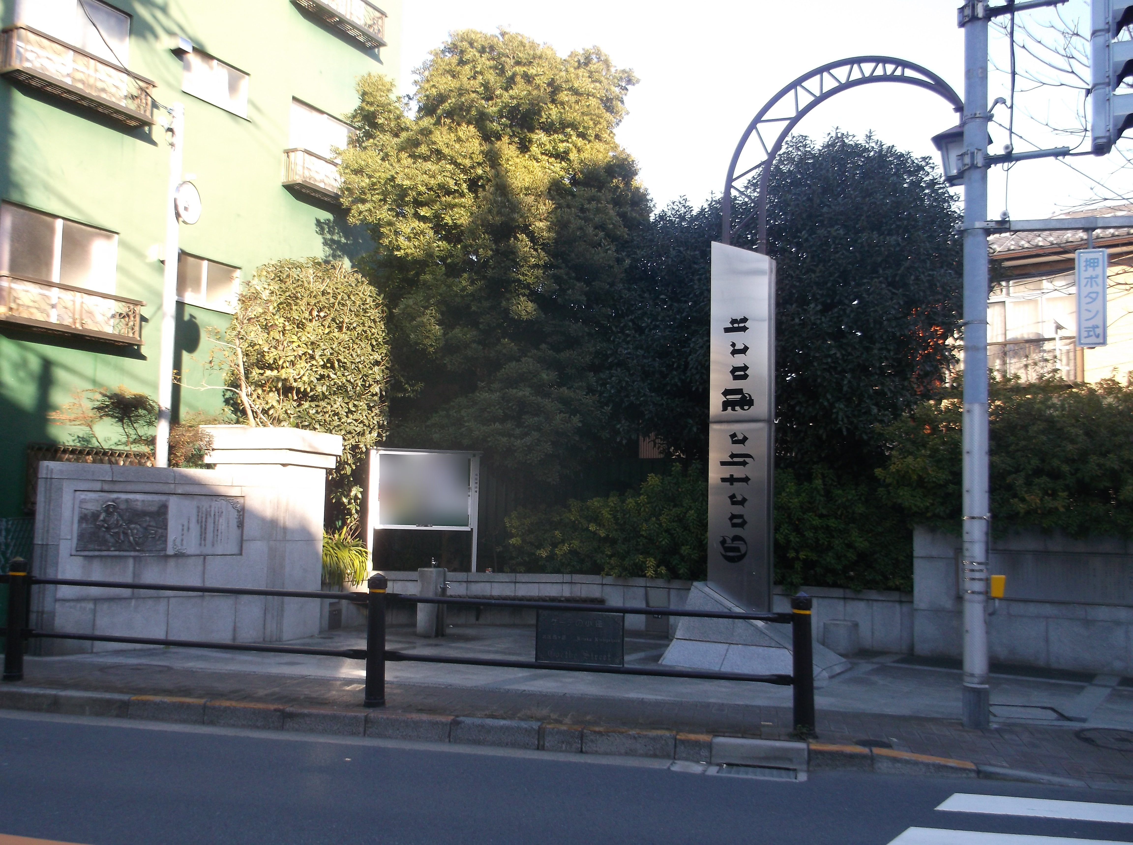 A photo of "Goethe park",Nishigahara,Kita-ku,Tokyo,Japan.